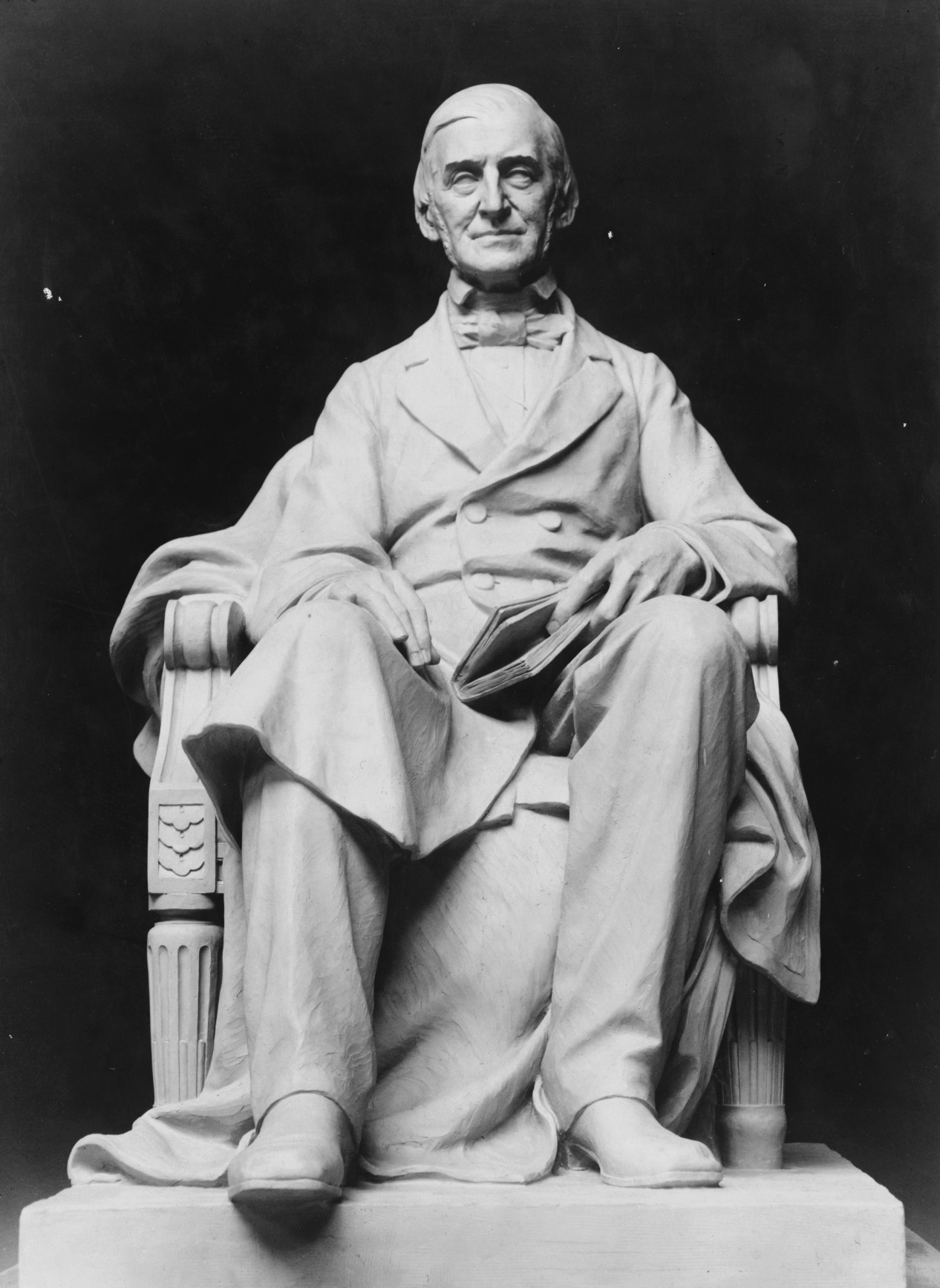 Statue of Ralph Waldo Emerson, full-length, seated, facing front